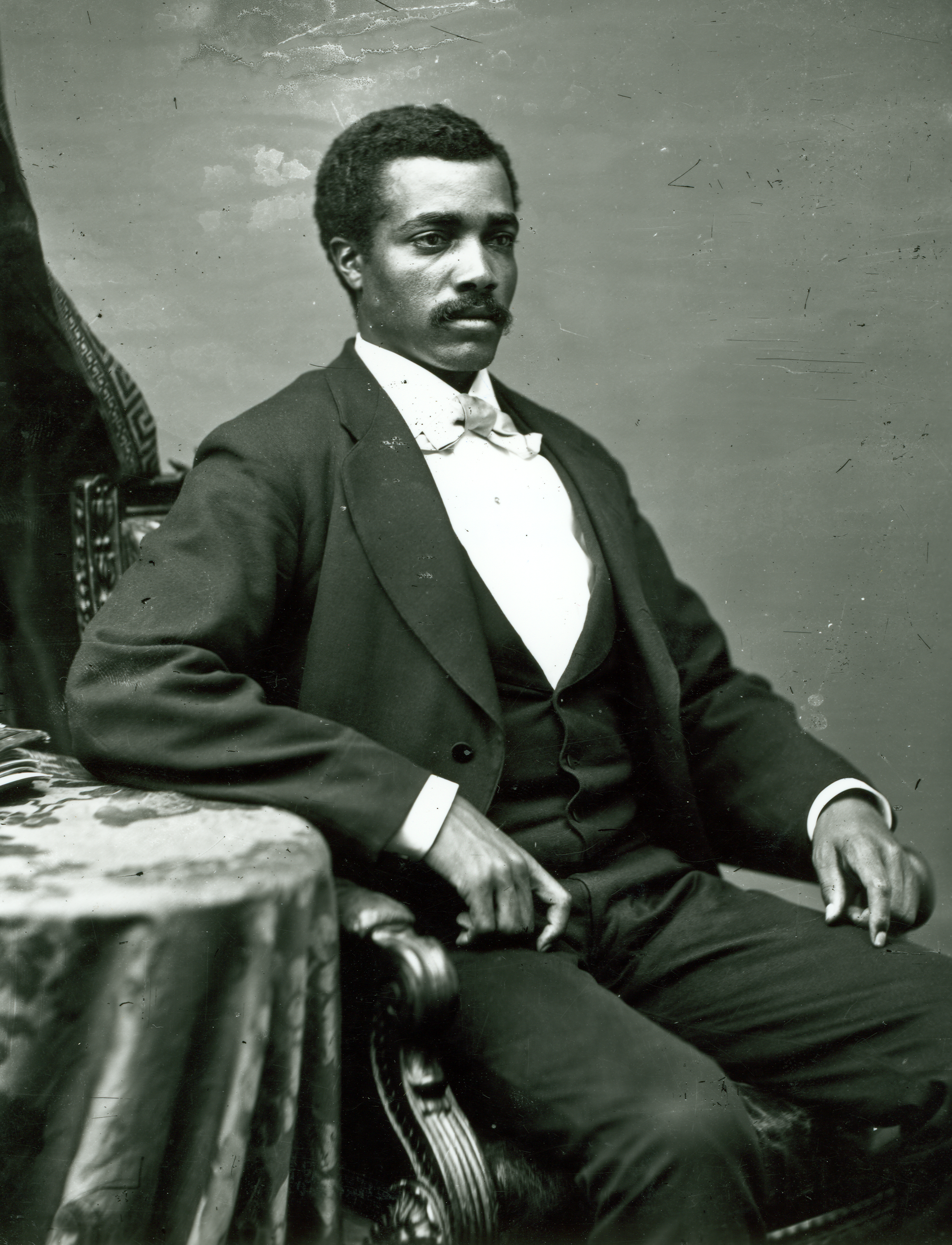 Josiah Thomas Walls (1842-1905) was a United States Congressman from 1871 until 1876. Josiah Walls was born a slave near Winchester, Virginia. He was forced to join the Confederate Army and was captured by the Union Army in 1862 at Yorktown. He voluntarily joined the United States Colored Troops in 1863 and rose to the rank of corporal. He was discharged in Florida and settled in Alachua County.